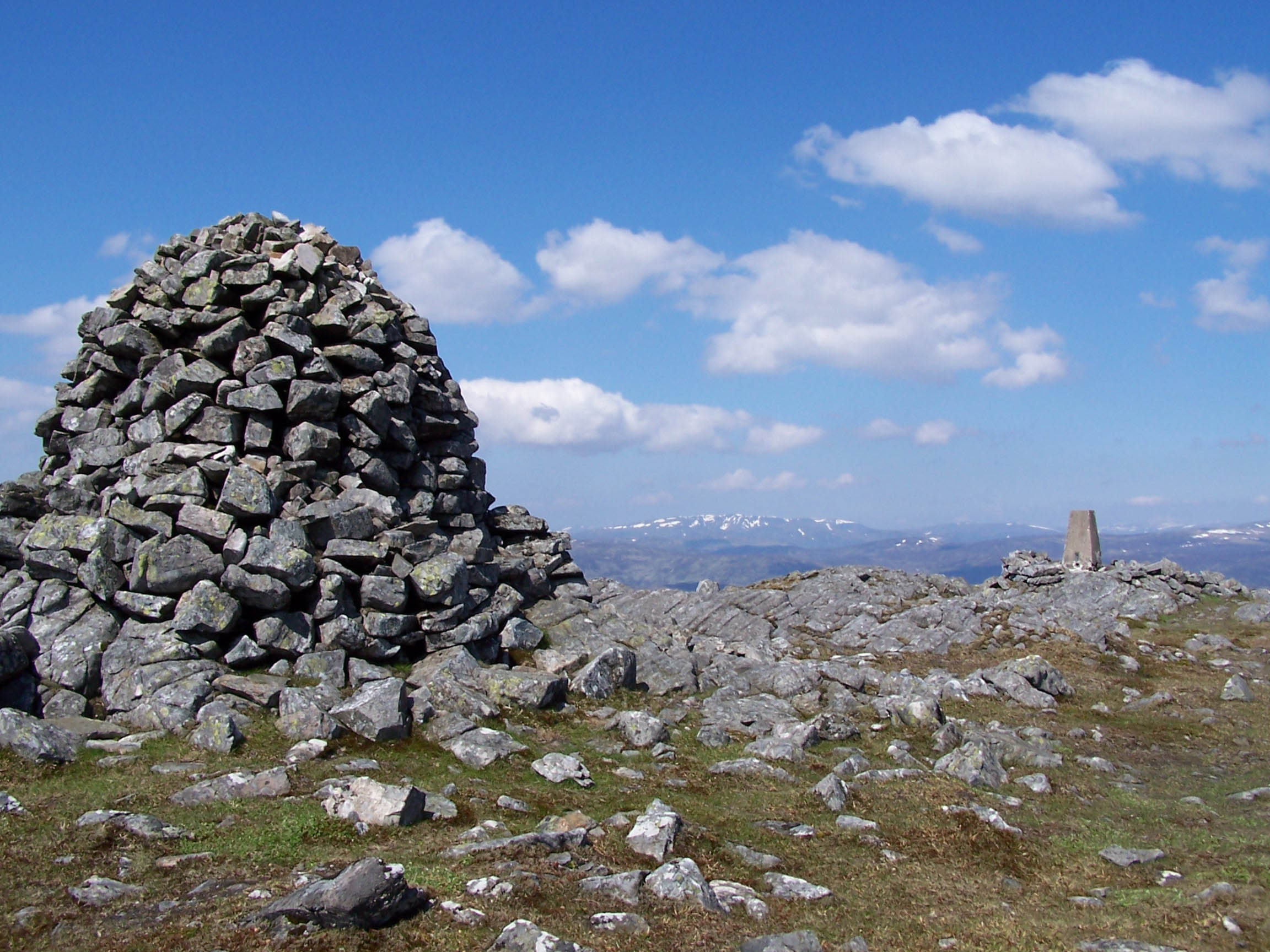 The summit of the mountain Beinn a Chuallaich